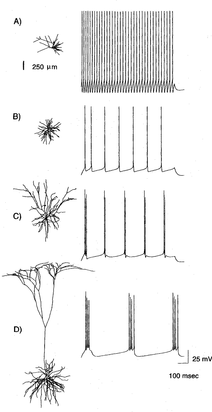 Adapted from the paper by Z.Mainen & T.Sejnowski "Influence of dendritic structure on firing pattern in model neocortical neurons", Nature (1996)